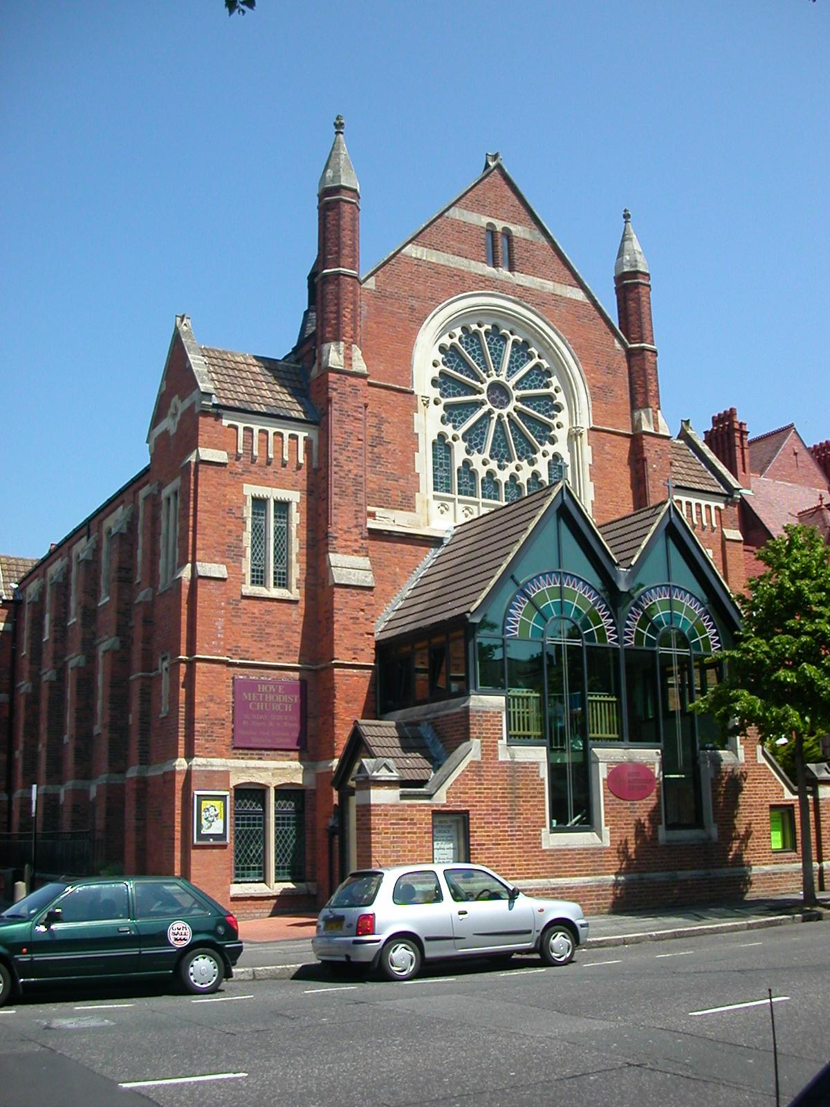 Hove Methodist Church, St Patrick's Road, looking north. Photographed on 2nd June 2007.